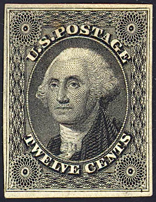 US Postage stamp:Washington, 1851, 12c, black